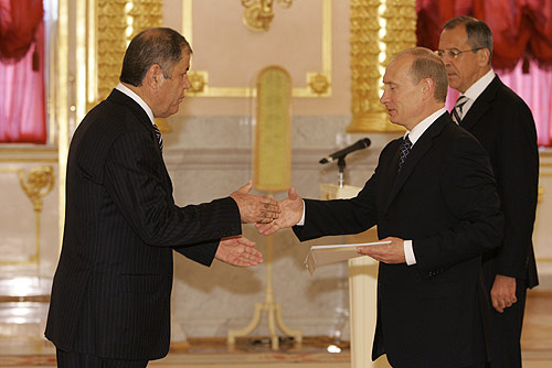 GRAND KREMLIN PALACE, MOSCOW. Ambassador of the Republic of Tajikistan presents his letter of credentials to the President.